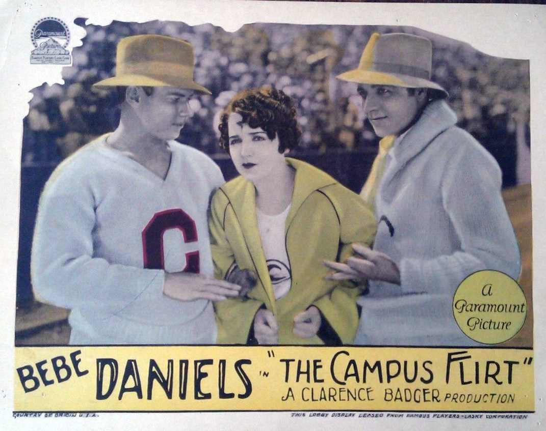 Lobby card from the American comedy film The Campus Flirt (1926) with Bebe Daniels.